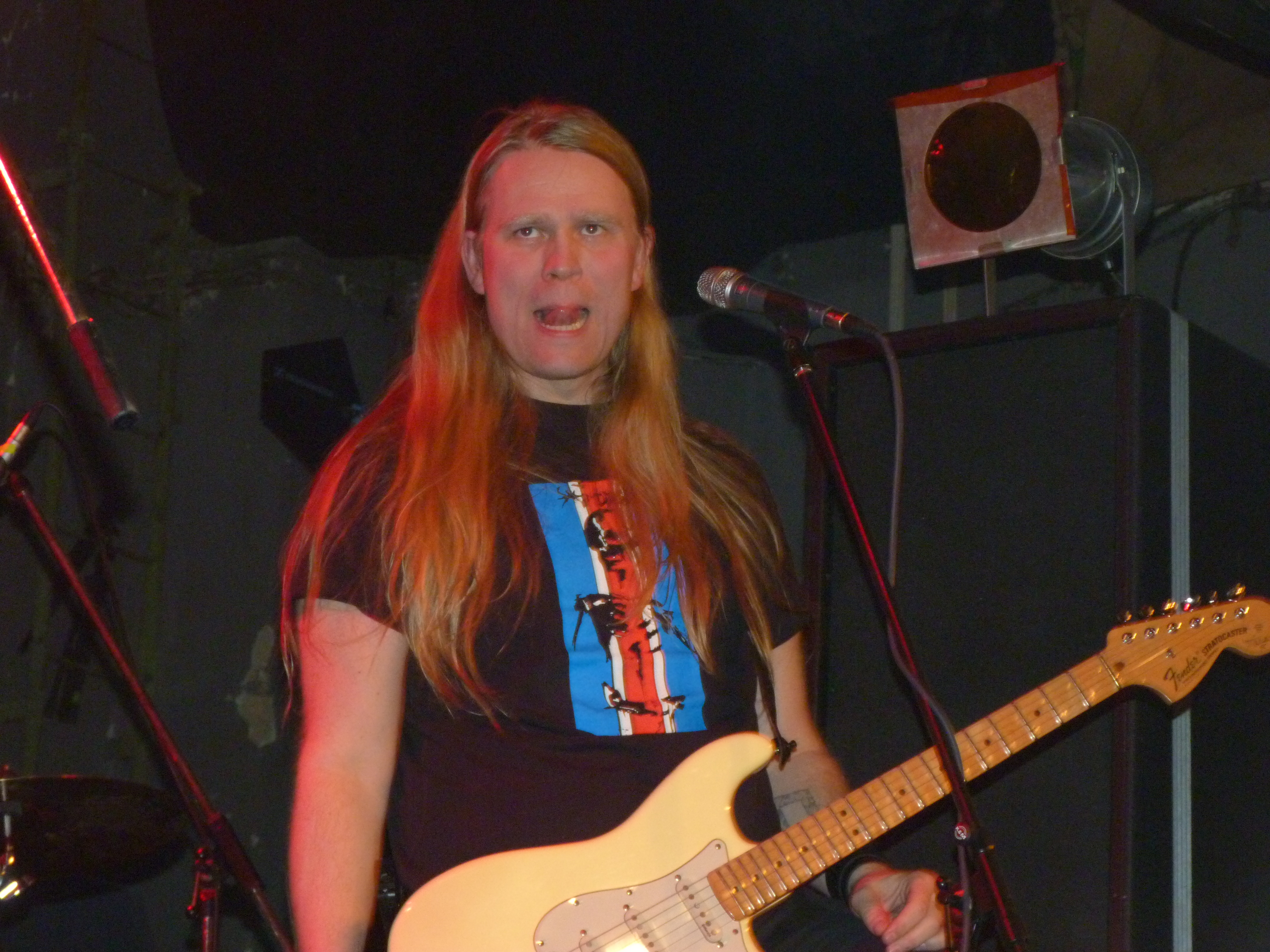 Live on the 10th of December 2014. Budapest, Club 202. Skálmöld. Skálmöld er risin! Skálmöld var stofnuð í ágúst 2009 af sex mönnum sem þekktust mismikið en áttu það sameiginlegt að hafa verið að einhverju leyti sýnilegir í íslensku tónlistarlífi, fæstir þó í harðari tegund tónlistar. Rætur meðlimanna flestra liggja þó í þungarokkinu og því var strax ljóst hvert stefndi. Fyrsta plata Skálmaldar, „Baldur“, kom út síðla árs 2010 og náði strax undraverðum vinsældum, bæði í rokkgeiranum en líka hjá fólki sem ólíklegra er til að hlusta á þessa tegund tónlistar. Í framhaldi af velgengni á heimaslóðum var platan gefin út á heimsvísu af austurríska útgáfurisanum Napalm Records og síðan þá hefur Skálmöld spilað á fjölmörgum tónleikum, bæði heima og utan, og vinsældir vaxið jafnt og þétt. Önnur plata sveitarinnar, „Börn Loka“ kom út síðla árs 2012 og var fylgt eftir með tónleikahaldi um víða veröld fram eftir ári 2013. Árið náði síðan hápunkti er Skálmöld lék tónlist sína þrívegis frammi fyrir fullri Eldborg, ásamt Sinfóníuhljómsveit Íslands, Karlakór Reykjavíkur, Kammerkórnum Hymnodiu og barnakór Kársnessskóla. Hljóð- og mynddiskur kom út í framhaldinu og hlaut metsölu. Tónlist Skálmaldar hefur verið kennd við víkinga og er það engin furða. Textar sveitarinnar, sem allir fylgja fornum íslenskum bragarháttum, eru í víkingastíl, yrkisefnið bardagar og goðafræði, og andrúmsloftið rammíslenskt. Tónlistin sjálf er þungarokk af gamla skólanum, kryddað með áhrifum frá þjóðlagaarfinum í bland við nýrri strauma. Útkoman er aðgengilegt og tilfinningaþrungið rokk sem lætur engan ósnortinn. Tónleikar Skálmaldar eru kafli út af fyrir sig. Þar nýtur sveitin sín best og hrífur áhorfendur með sér með frumkrafti og spilagleði. Þessi upplifun verður þó alls ekki fullútskýrð með orðum og því er sjón sögu ríkari.